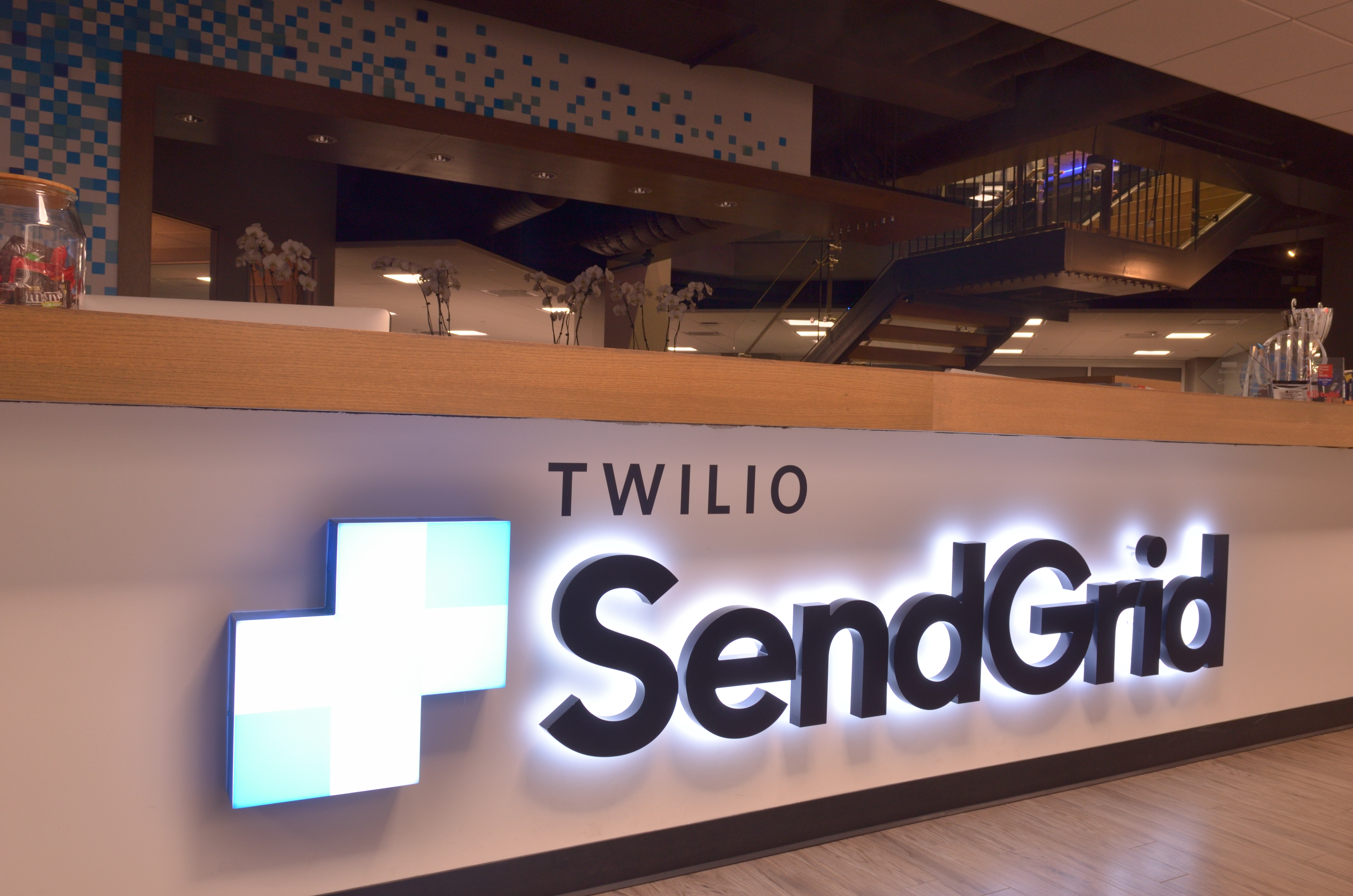 SendGrid office in Denver